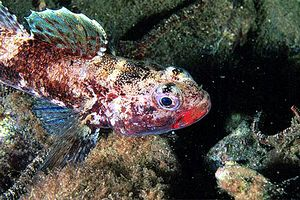 Picture of Gobius cruentatus